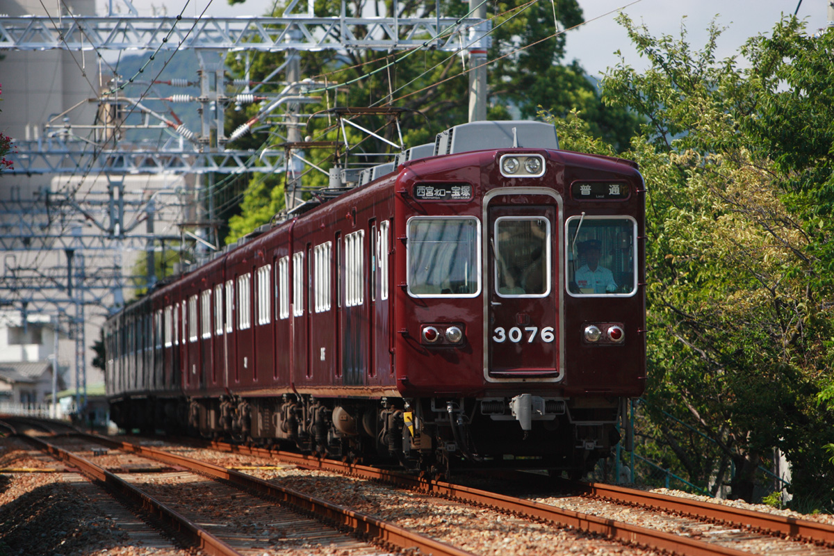 Hankyu Railway 3000 Series at Imazu Line